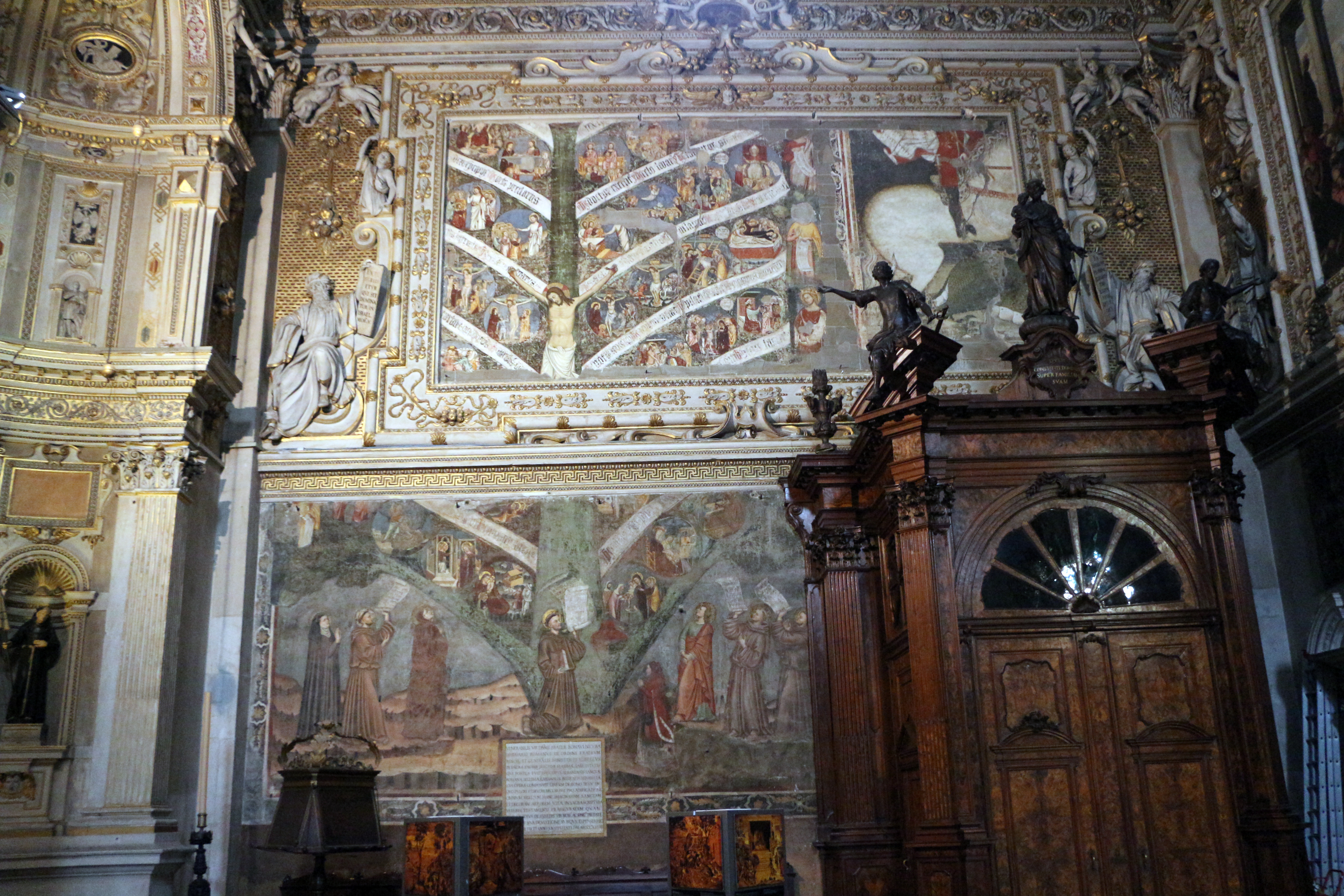 Santa Maria Maggiore (Bergamo)